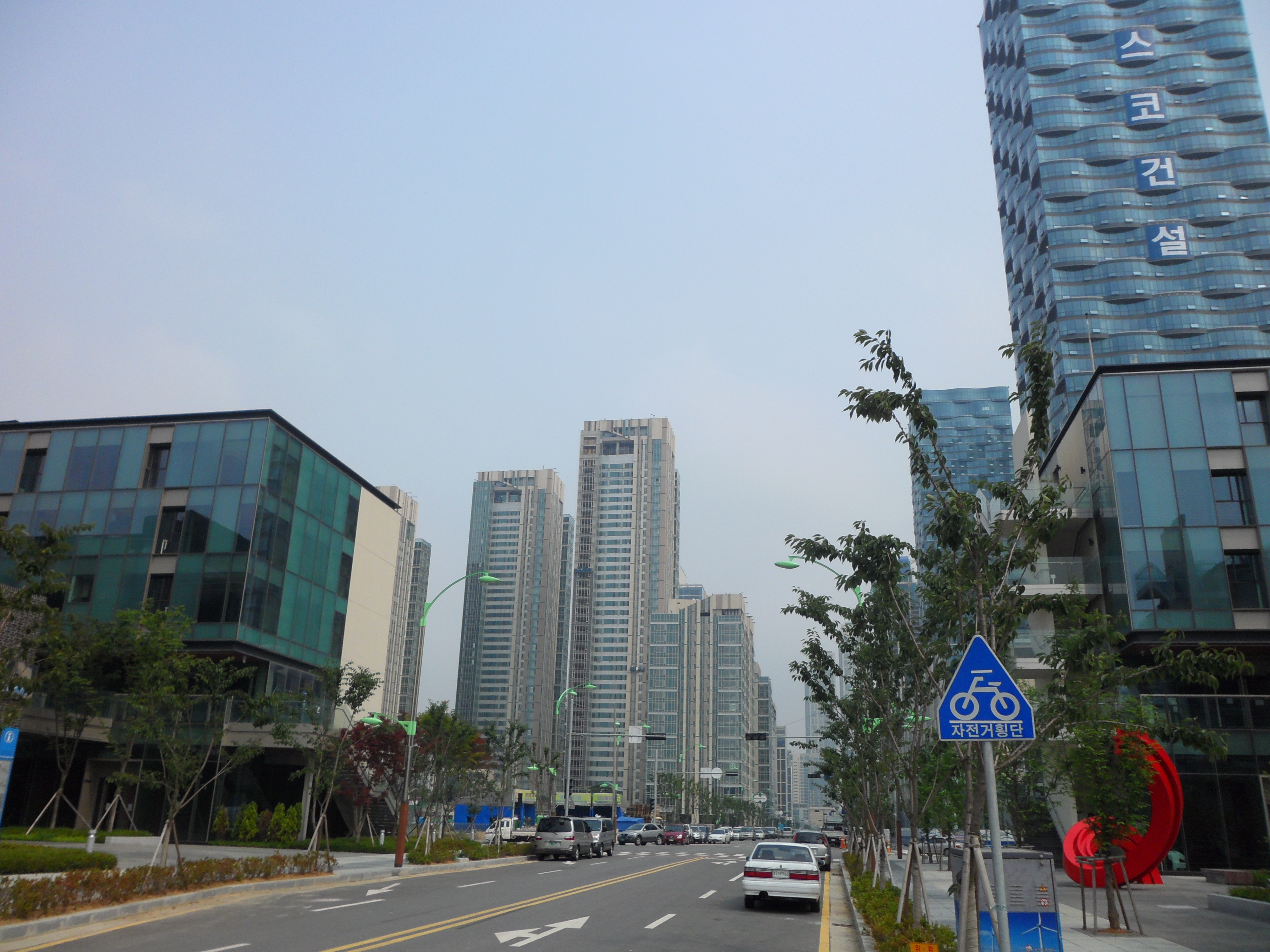 Songdo International City.